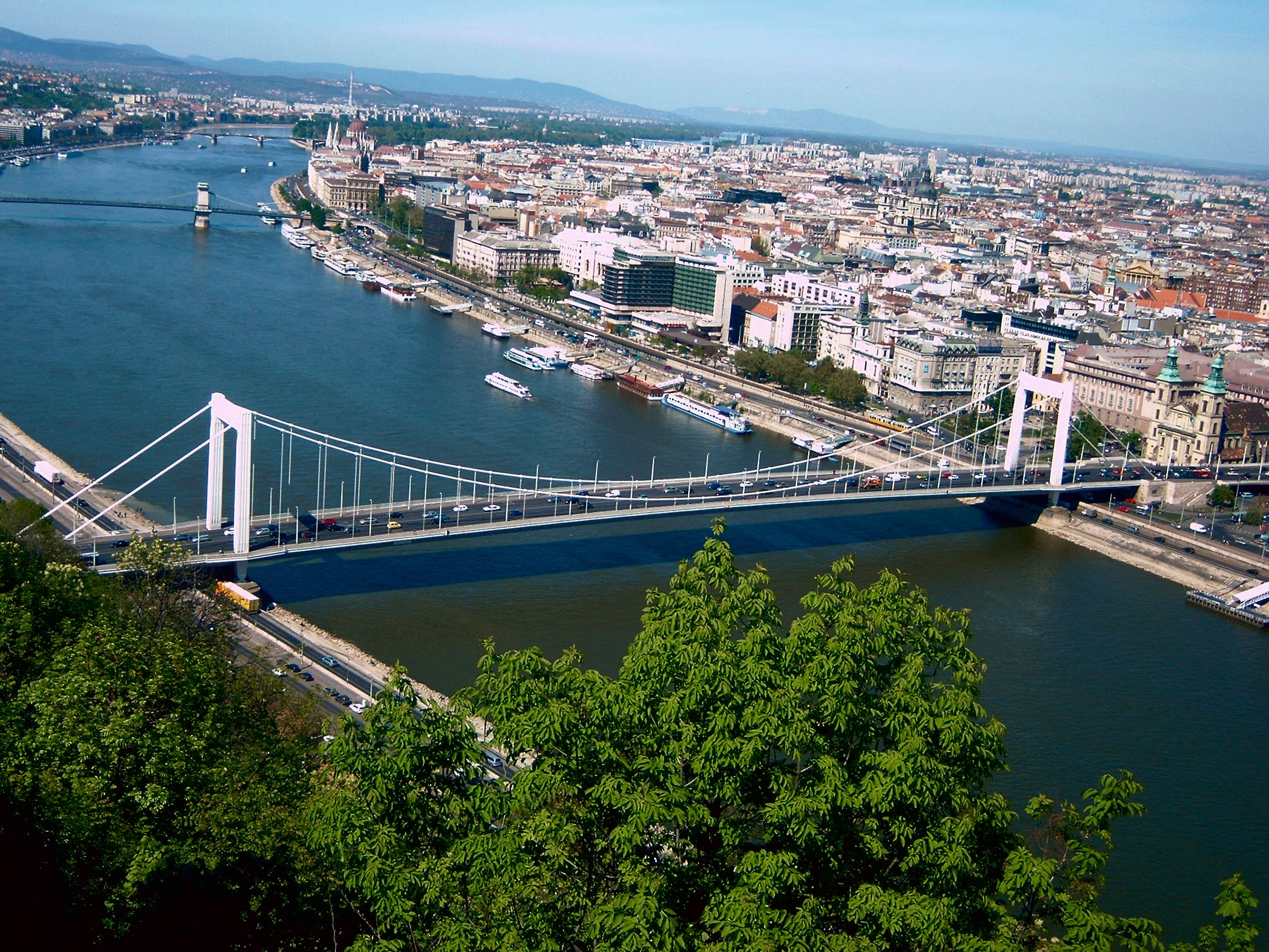 The following is the author's description of the photograph quoted directly from the photograph's Flickr page. "Erzsébet híd seen from Gellért Hill "